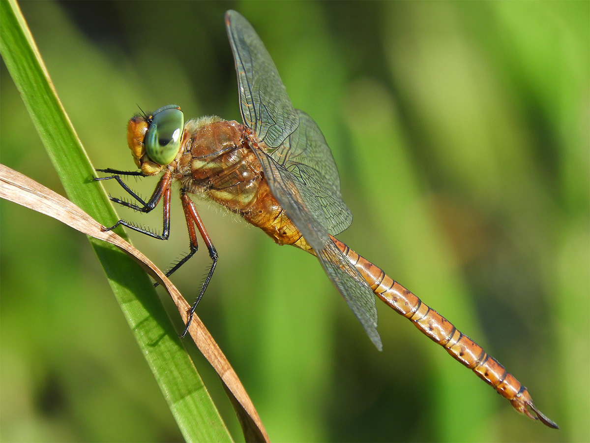 Male Green-eyed Hawker, Aeshna isoceles. North-eastern Lower Saxony, Germany.